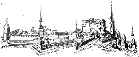 The town Laufenburg, Switzerland, in 1640